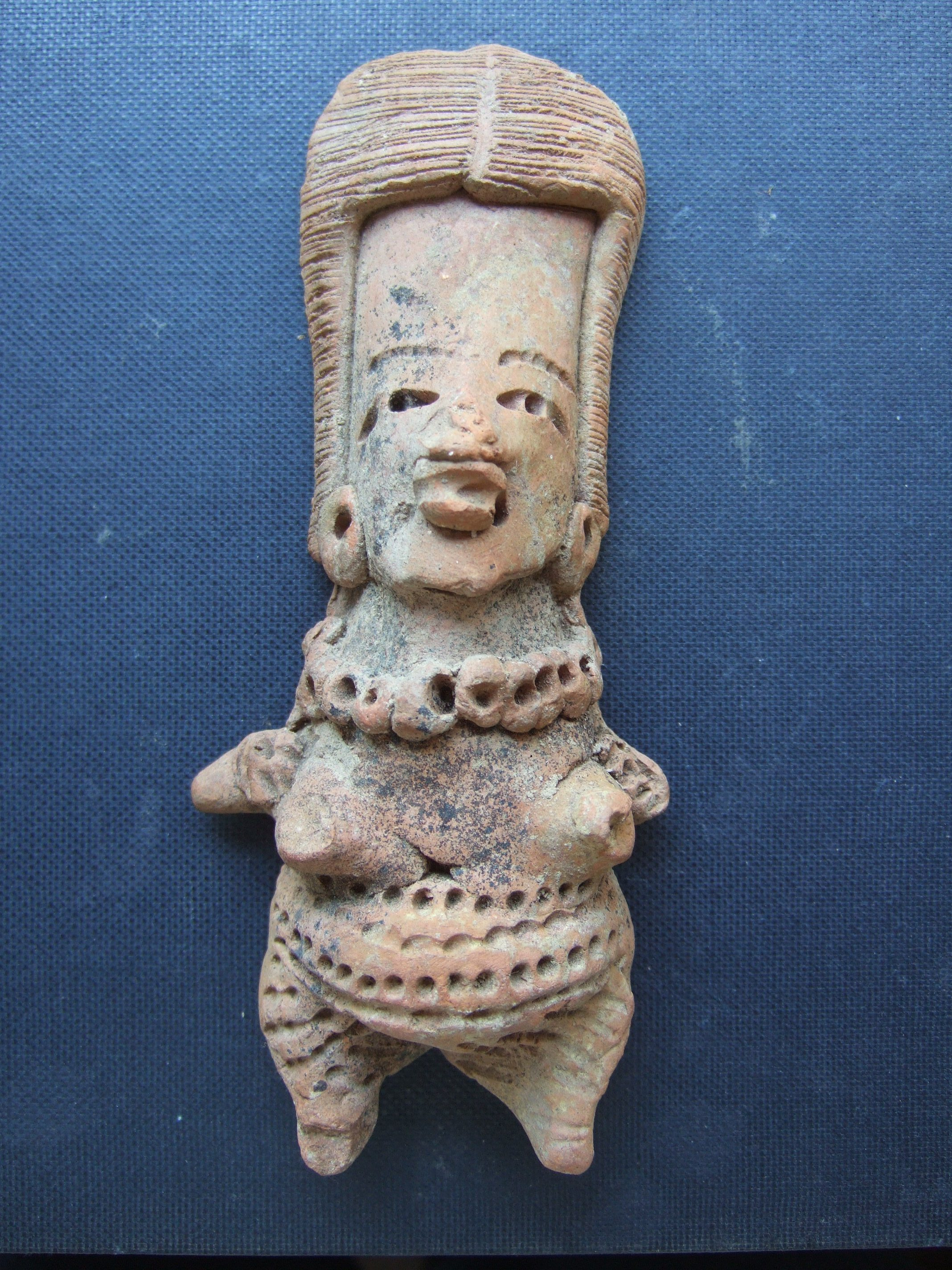 Precolombian Figurin of San Jerónim de Benítez. Late Preclassic (300 B.C. - 300 A.D.). Height 15.5 cm.